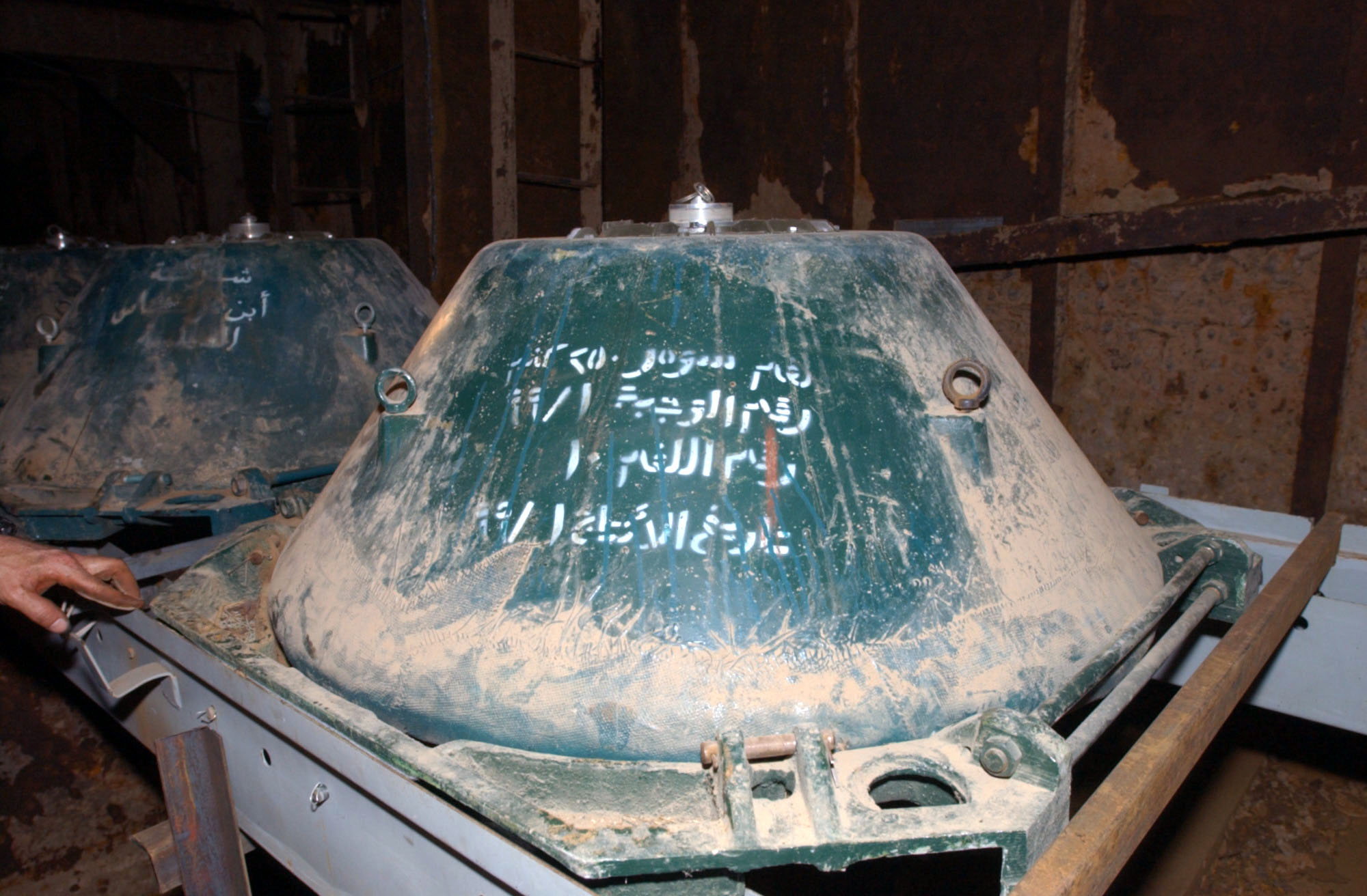 The Arabian Gulf (Mar. 21, 2003) – This acoustic influence mine is among the over five-dozen weapons found by Coalition Maritime Interdiction Operation (MIO) and Vessel Board Search and Seizure (VBSS) teams carefully camouflaged inside a shipping barge or as oil barrels on deck. The shipping barge was intercepted and inspected by the MIO and VBSS teams from the patrol craft USS Chinook (PC 9) in the early hours of Operation Iraqi Freedom. Operation Iraqi Freedom is the multi-national coalition effort to liberate the Iraqi people, eliminate Iraq’s weapons of mass destruction and end the regime of Saddam Hussein. U.S. Navy photo by Photographer’s Mate 2nd Class Richard Moore. (RELEASED)